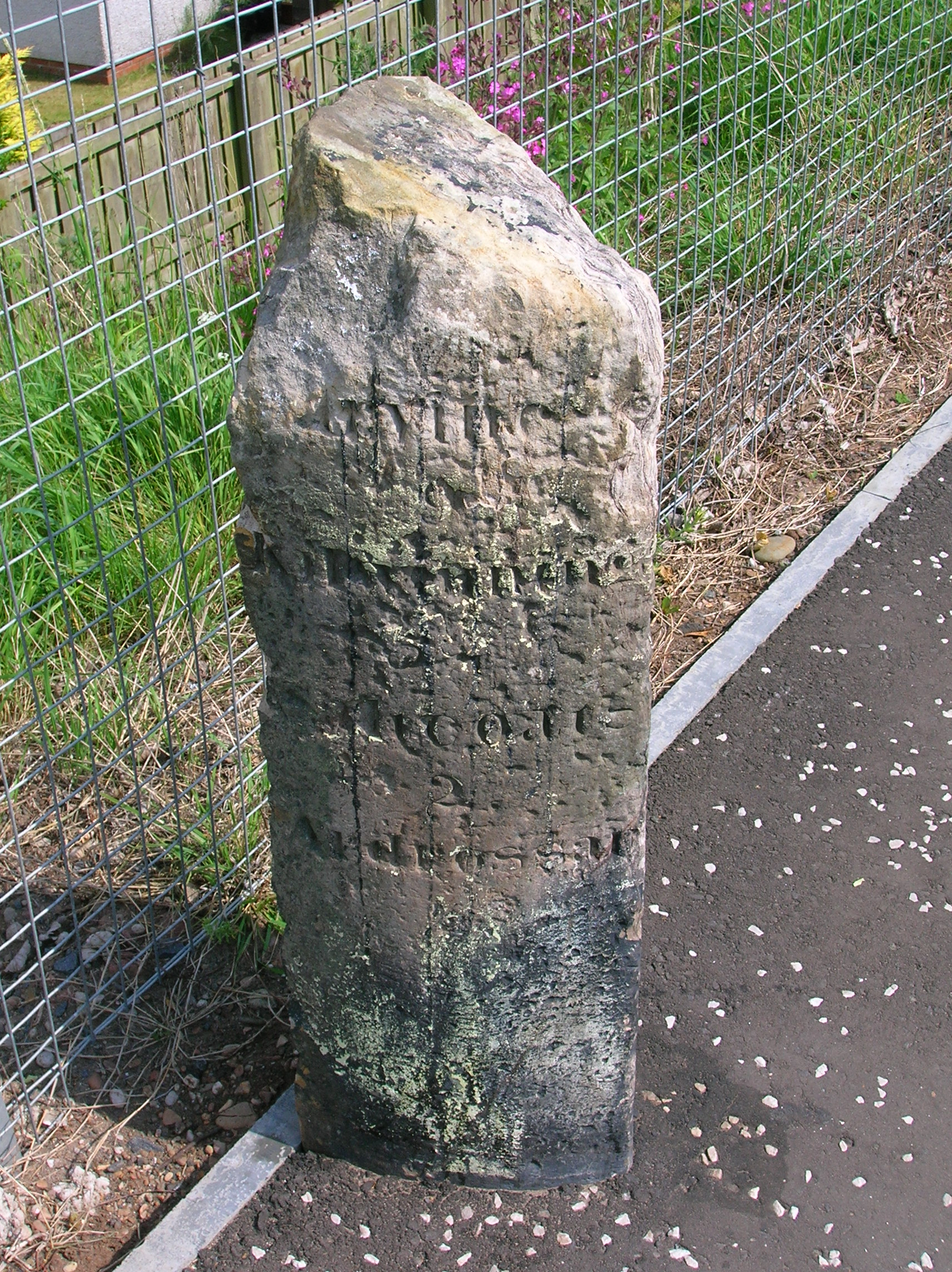 A Toll Road milestone near the old Ardrossan North station, North Ayrshire, Scotland.